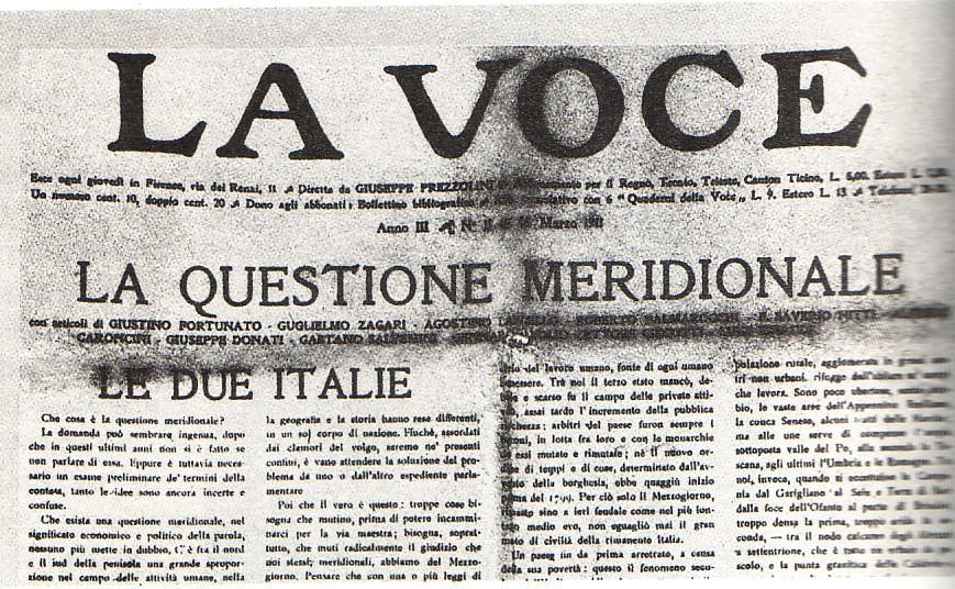 front page of the Italian periodical “La Voce”, edition of March 1911